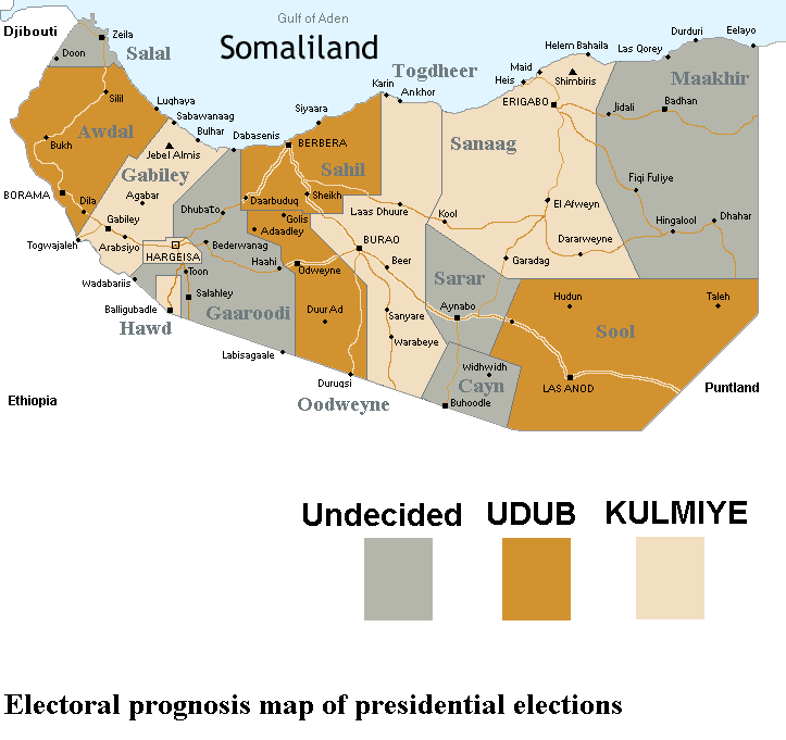 Made by Hails